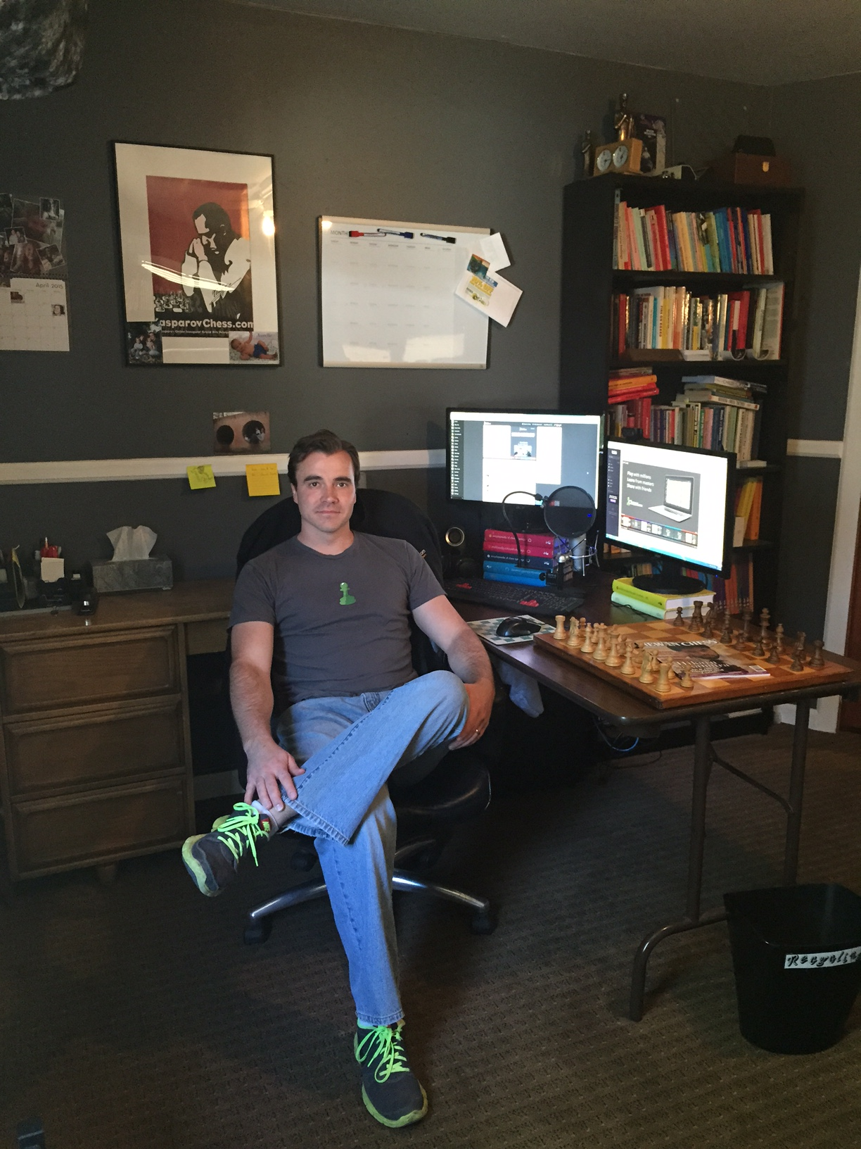 Daniel Rensch